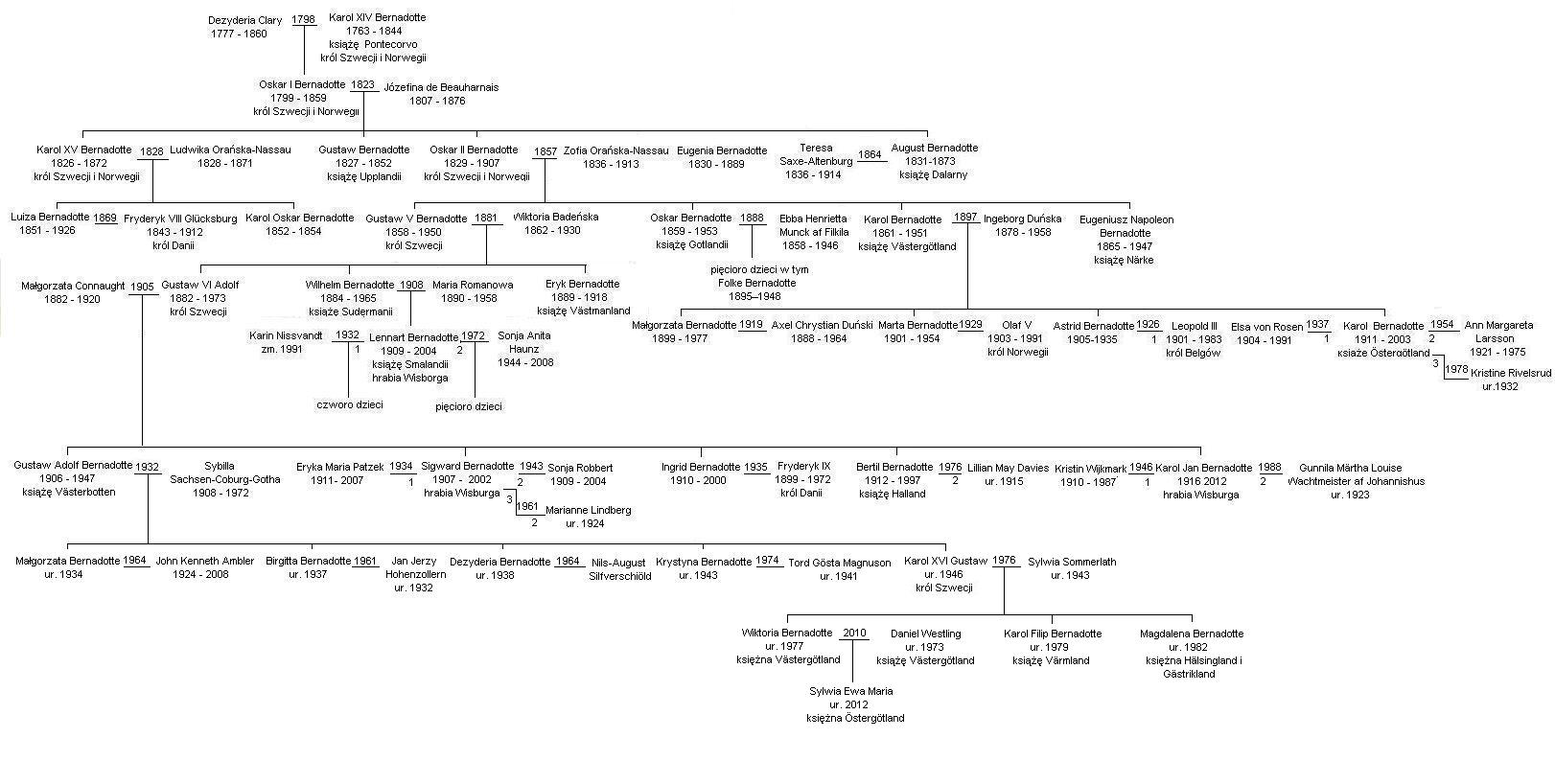 Bernadotte family tree